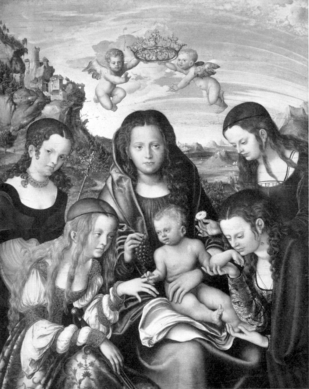 'Virgin and Child with Four Female Saints', by Lucas Cranach the Elder, ca. 1512-1514 . The painting was destroyed or disappeared in Berlin in May 1945, in the Friedrichshain flak tower fire. - Dimensions: 95 x76 cm